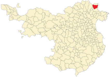 Colera